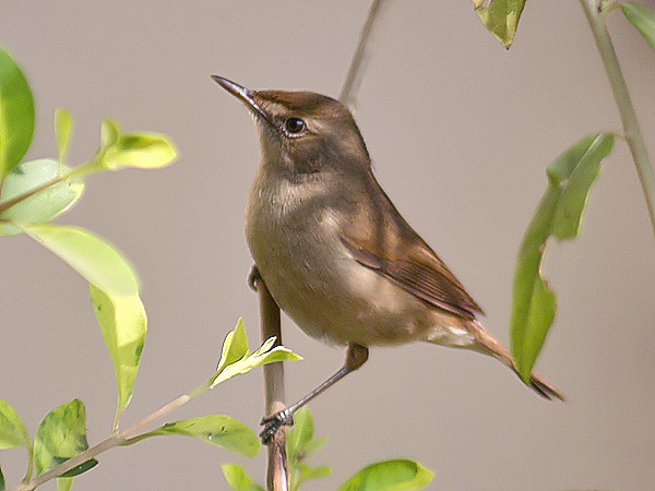 Blyth's Reed Warbler (Acrocephalus dumetorum) in Kolkata, West Bengal, India.